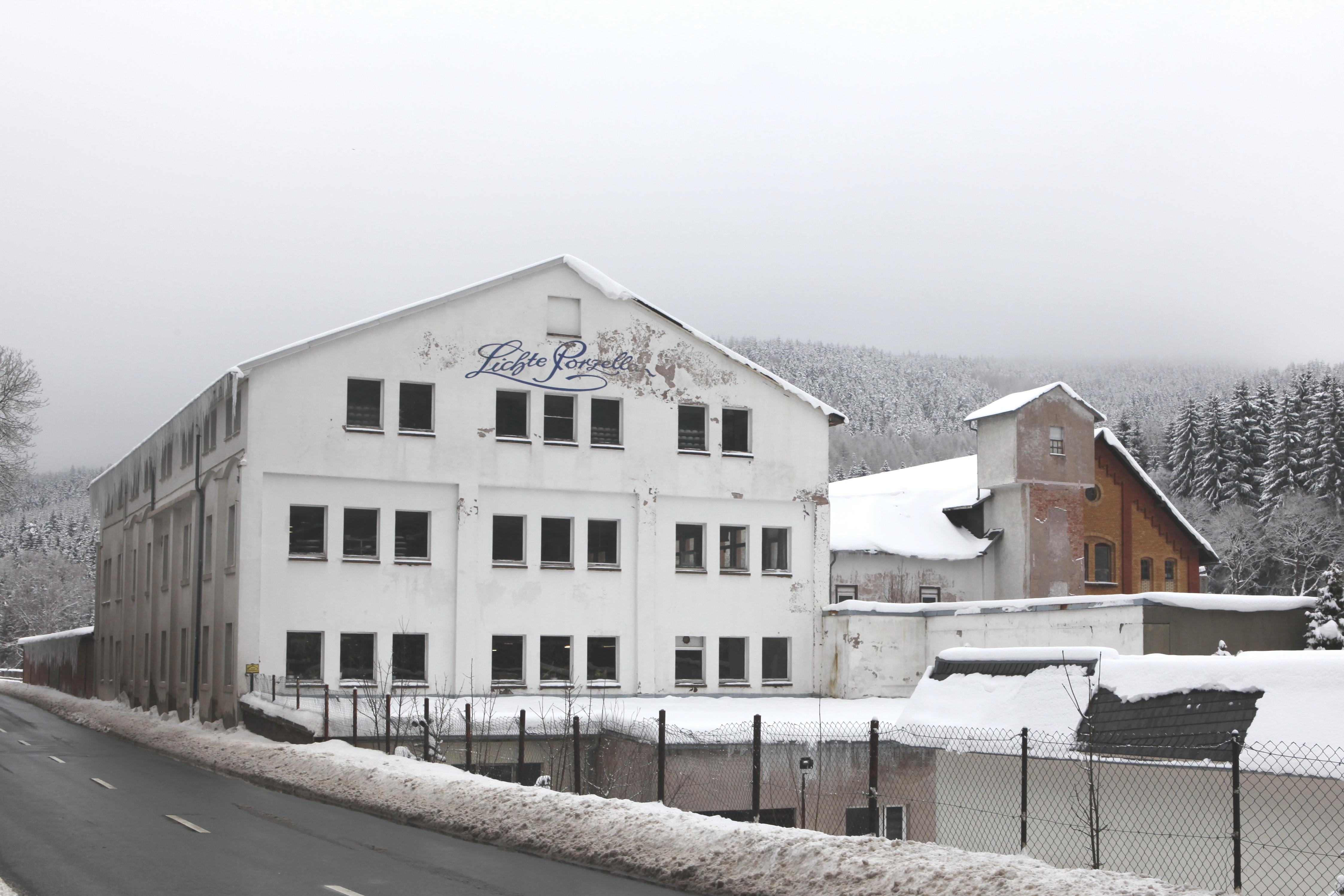 Lichte porcelain (GmbH), main building of the manufactury in the street Sonneberger-Strasse (Februaray 2013.